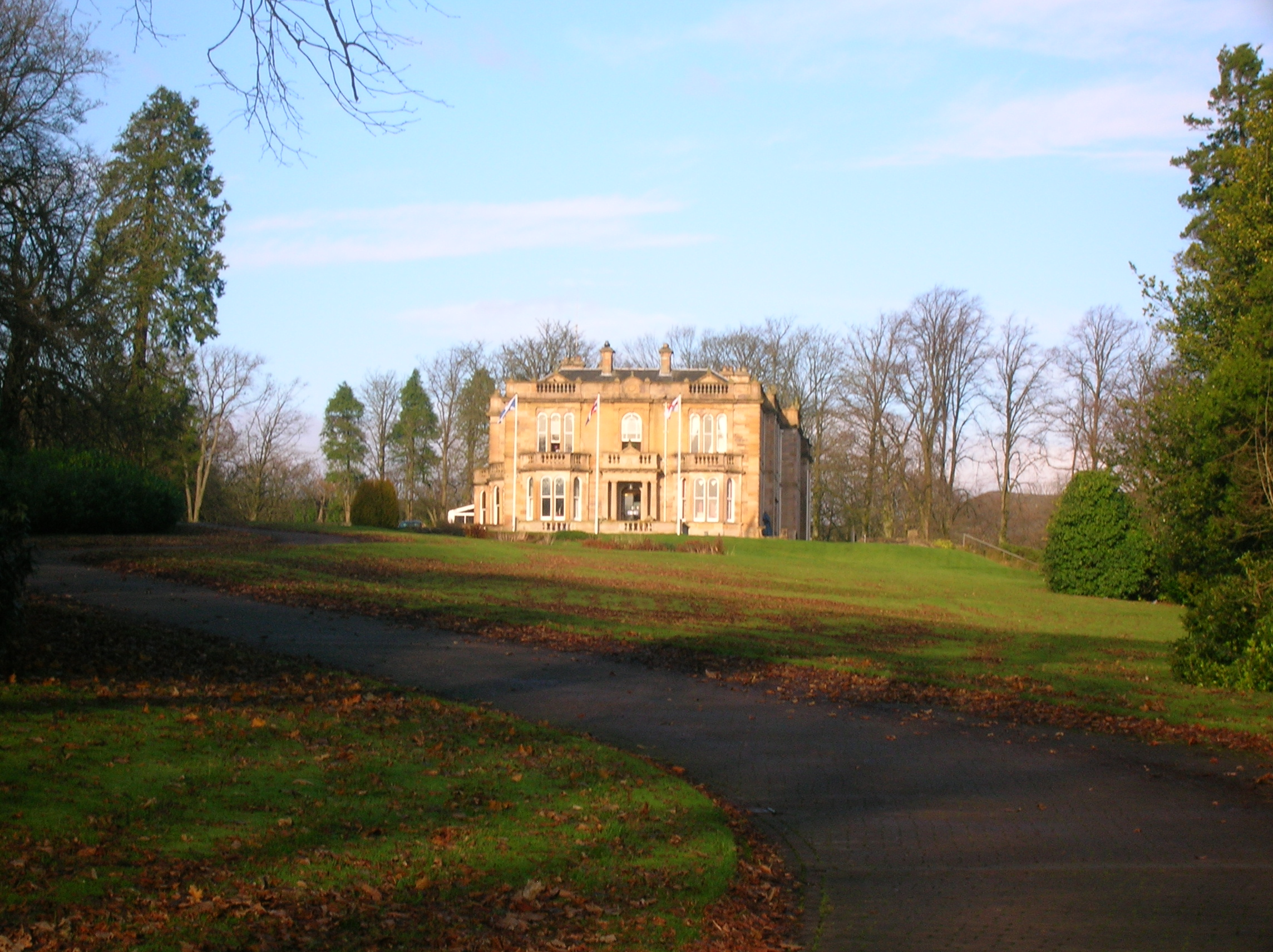 Moorpark House Hotel in Kilbirnie, North Ayrshire, Scotland